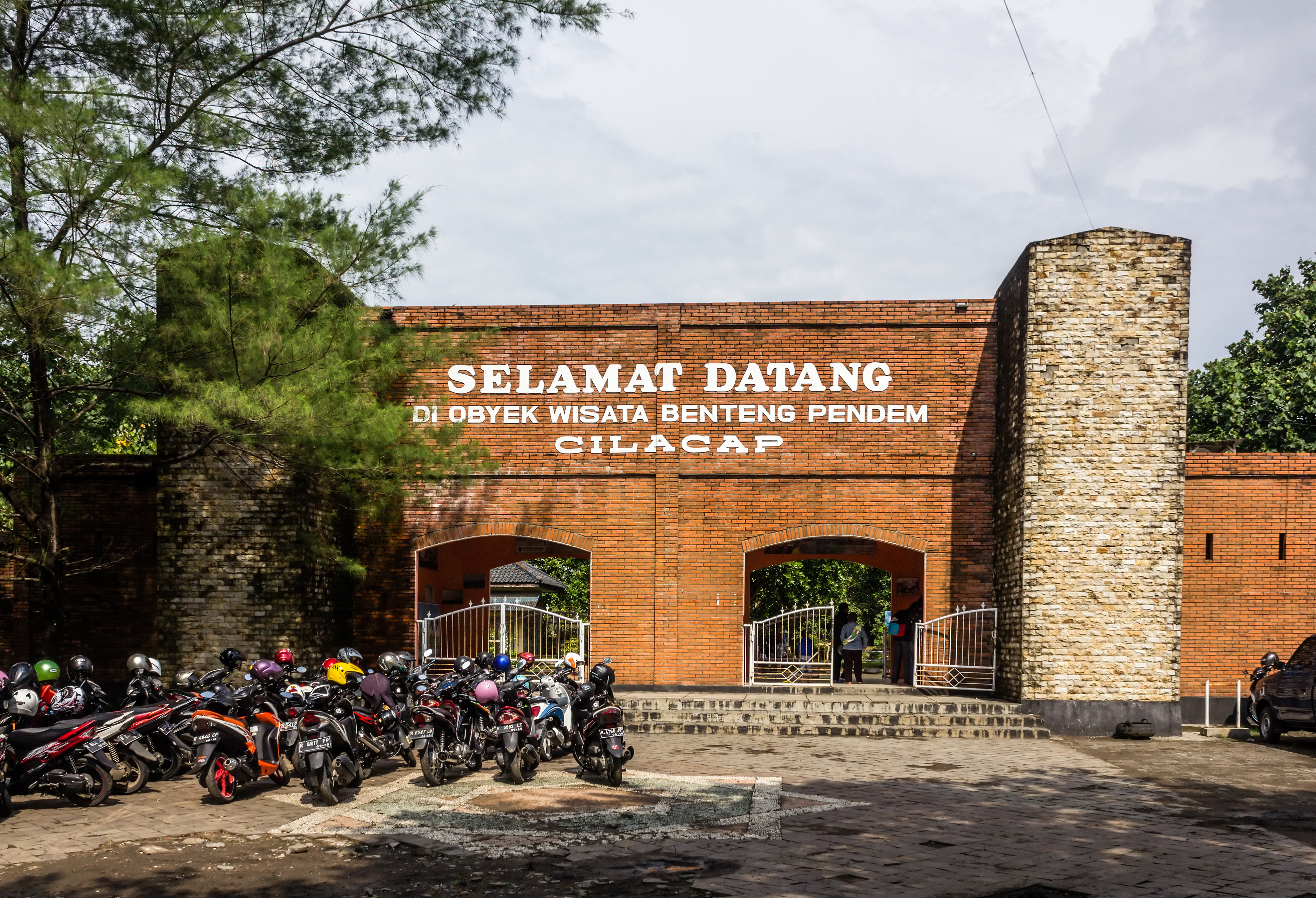 Entrance, Benteng Pendem, Cilacap 2015-03-21